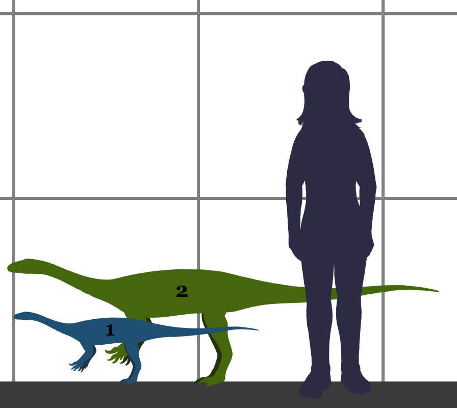 Size of Anchisaurus (Sauropsida, Dinosauria, Saurichia, Sauropodomorpha, Anchisauridae), compared to a human. 1. Size of adult specimen (about 2 meters). 2. Smaller specimen published by Galton, 1976.[1] References ↑ Weishampel D.B., “Another Look at the Dinosaurs of the East Coast of North America”, Center for Functional Anatomy and Evolution, Johns Hopkins University, 2004.